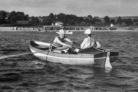 Mustafa Kemal Atatürk in a rowboat in Florya, 1935Türkçe: Mustafa Kemal Atatürk Florya'da, bir sandalda kürek çekerken, 1935